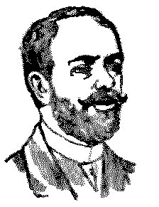 Tomasz Dykas (1850-1910), Polish sculptor.